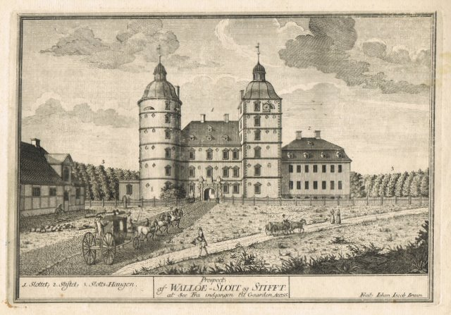 Copper plate engraving showing Vallø Castle in Denmark after drawing by Johan Jacob Bruun (1755)